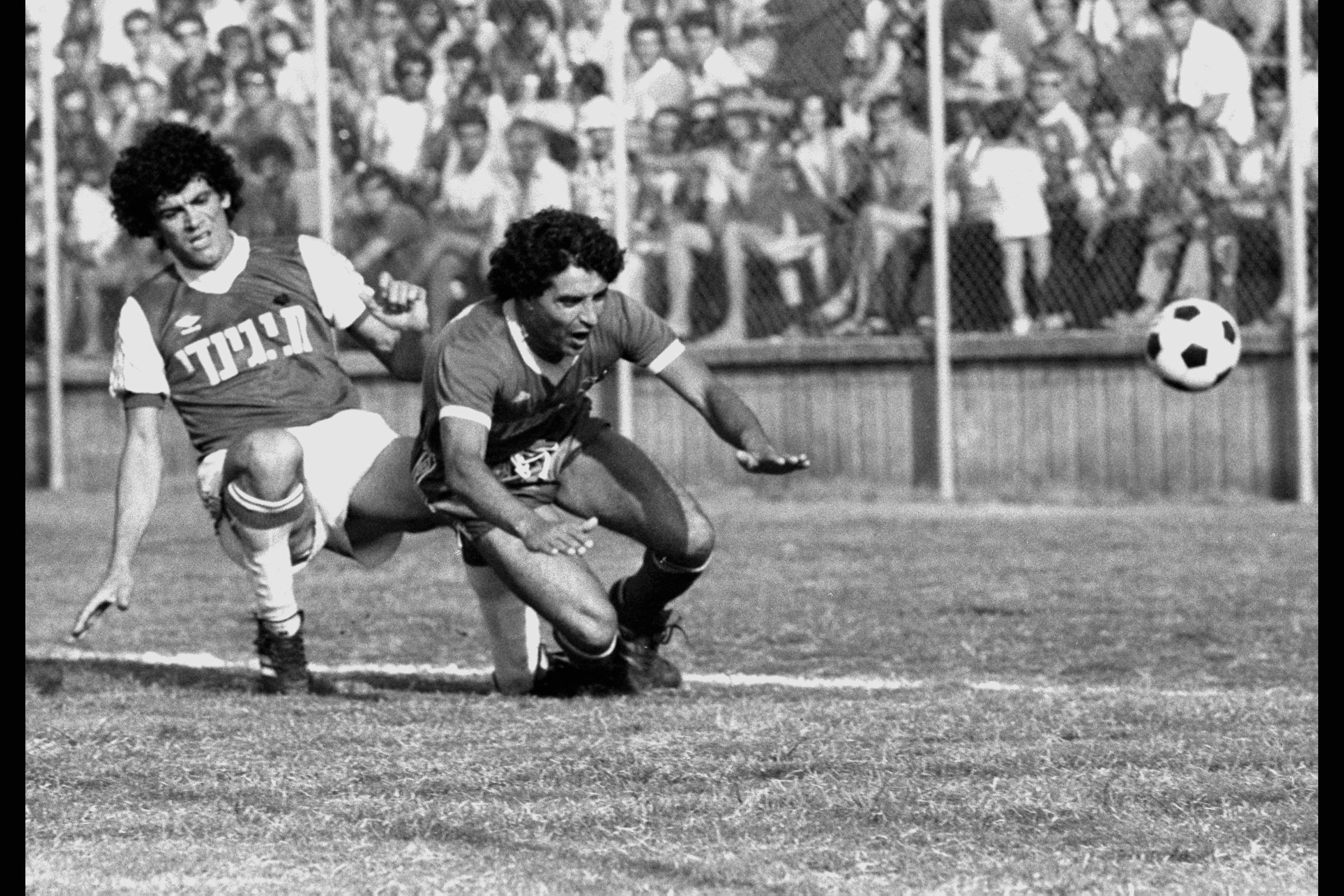 A tense moment during the Israeli Championship final, held at the Ramat Gan Stadium, between Shimshon Tel Aviv and Hapoel Kfar Saba. רגע מותח בגמר הליגה בין שמשון תל אביב והפועל כפר סבא Photo: ROTH YOSSI, 05/01/1982 ©COPYRIGHT HELD BY THE PHOTOGRAPHE